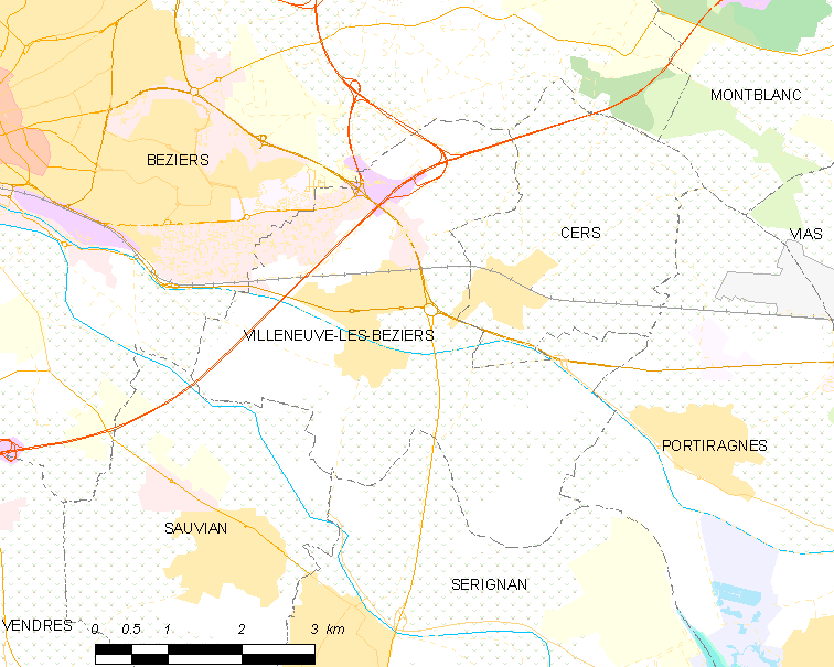 Map commune FR insee code 34336.png - Villeneuve-lès-Béziers